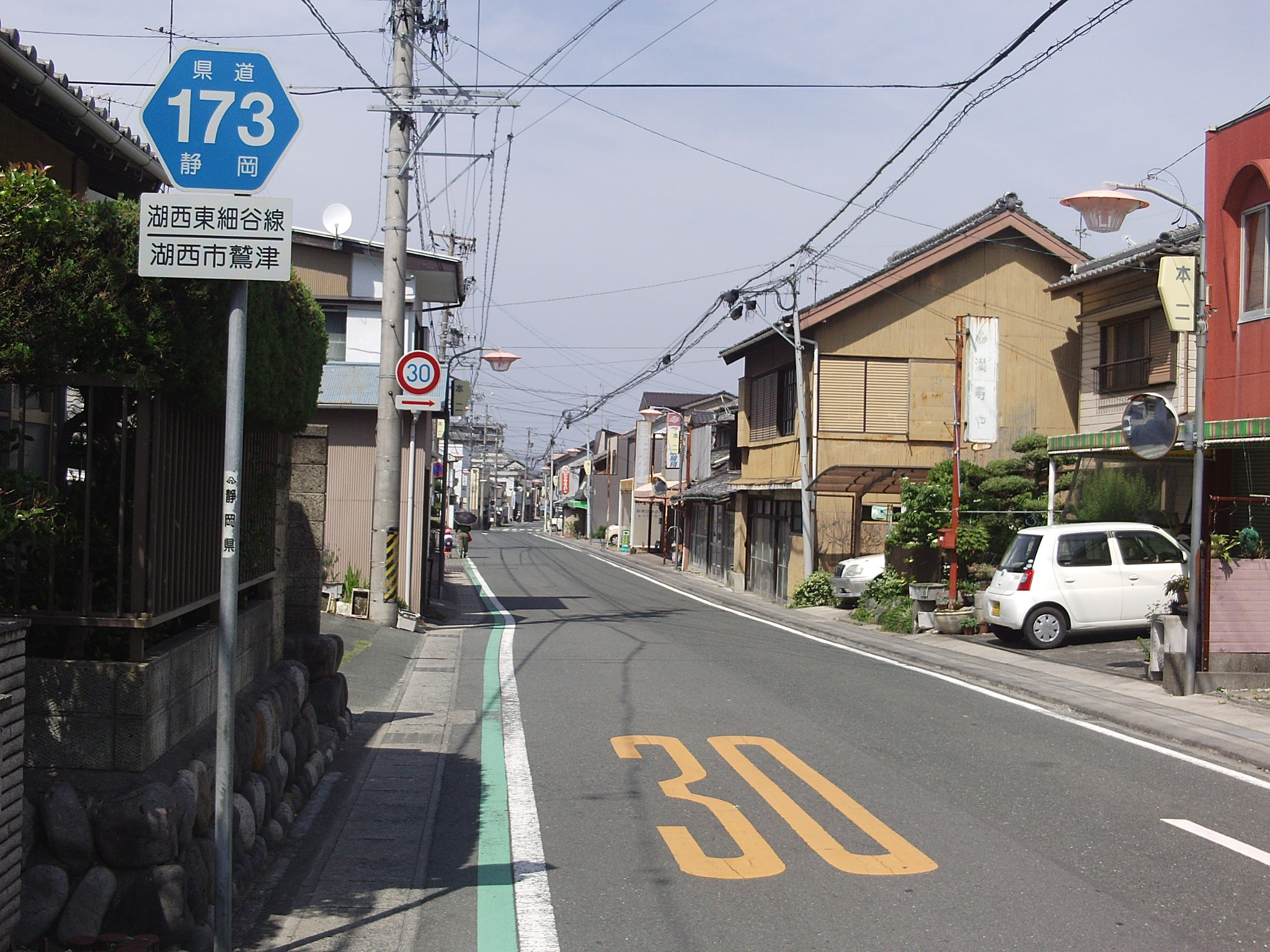 Shizuoka prefectural road No.173 in Washidzu, Kosai, Shizuoka.